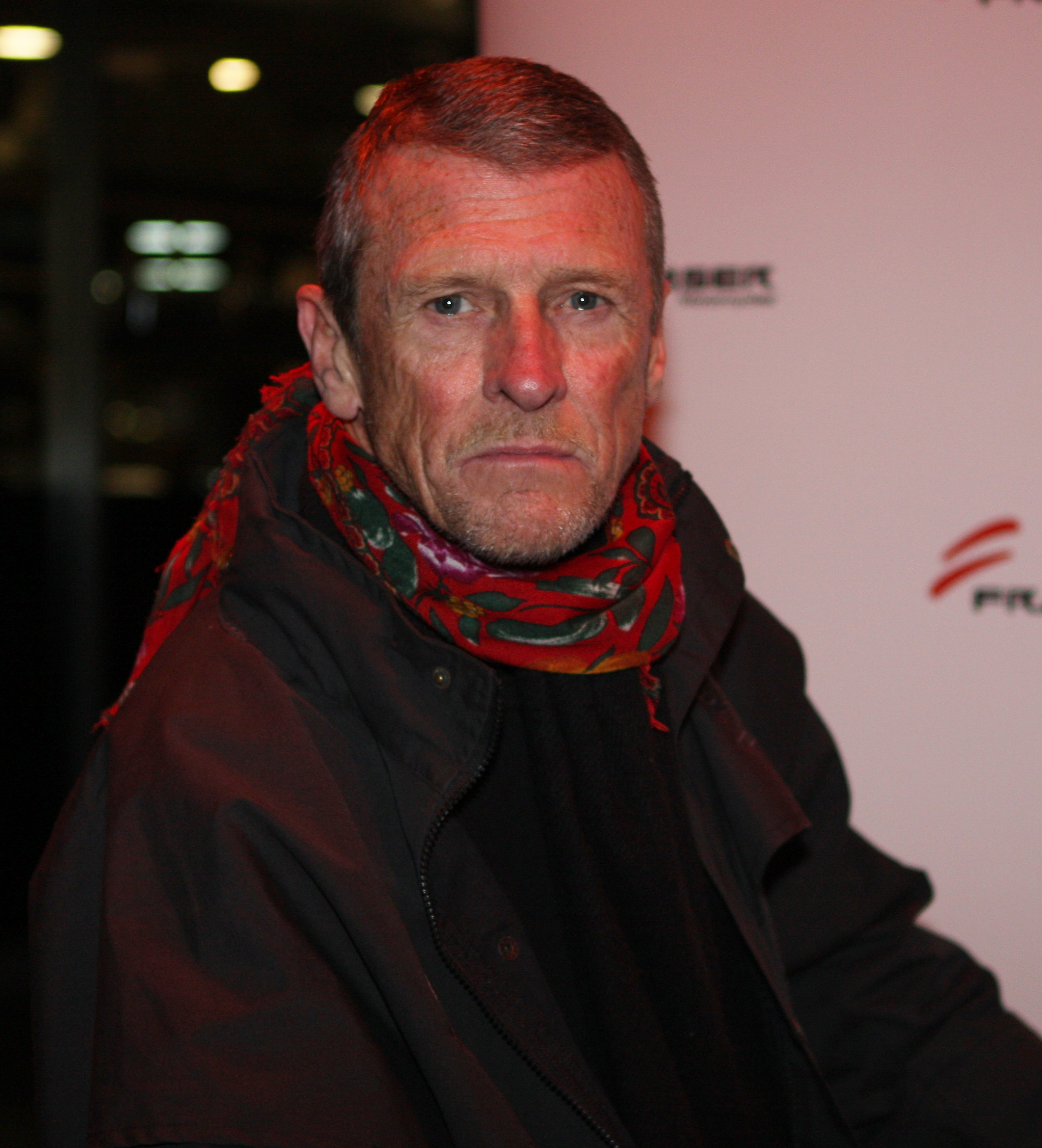 Tony Bonner at a Ducati launch in Sydney, Australia in May 2011.